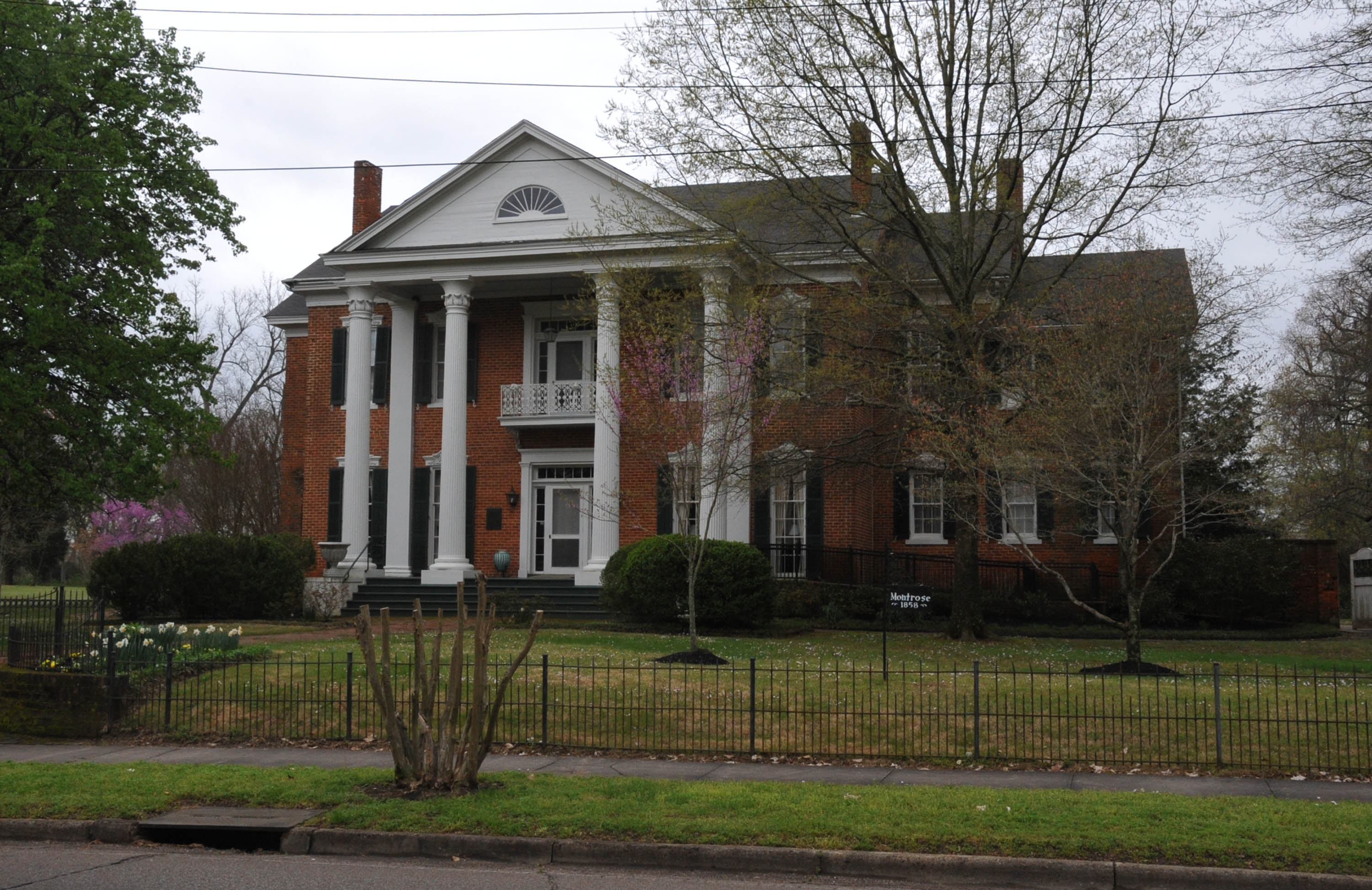 MONTROSE 1858 BUILT BY ALFRED BROOKS AS A WEDDING PRESENT FOR HIS DAUGHTER